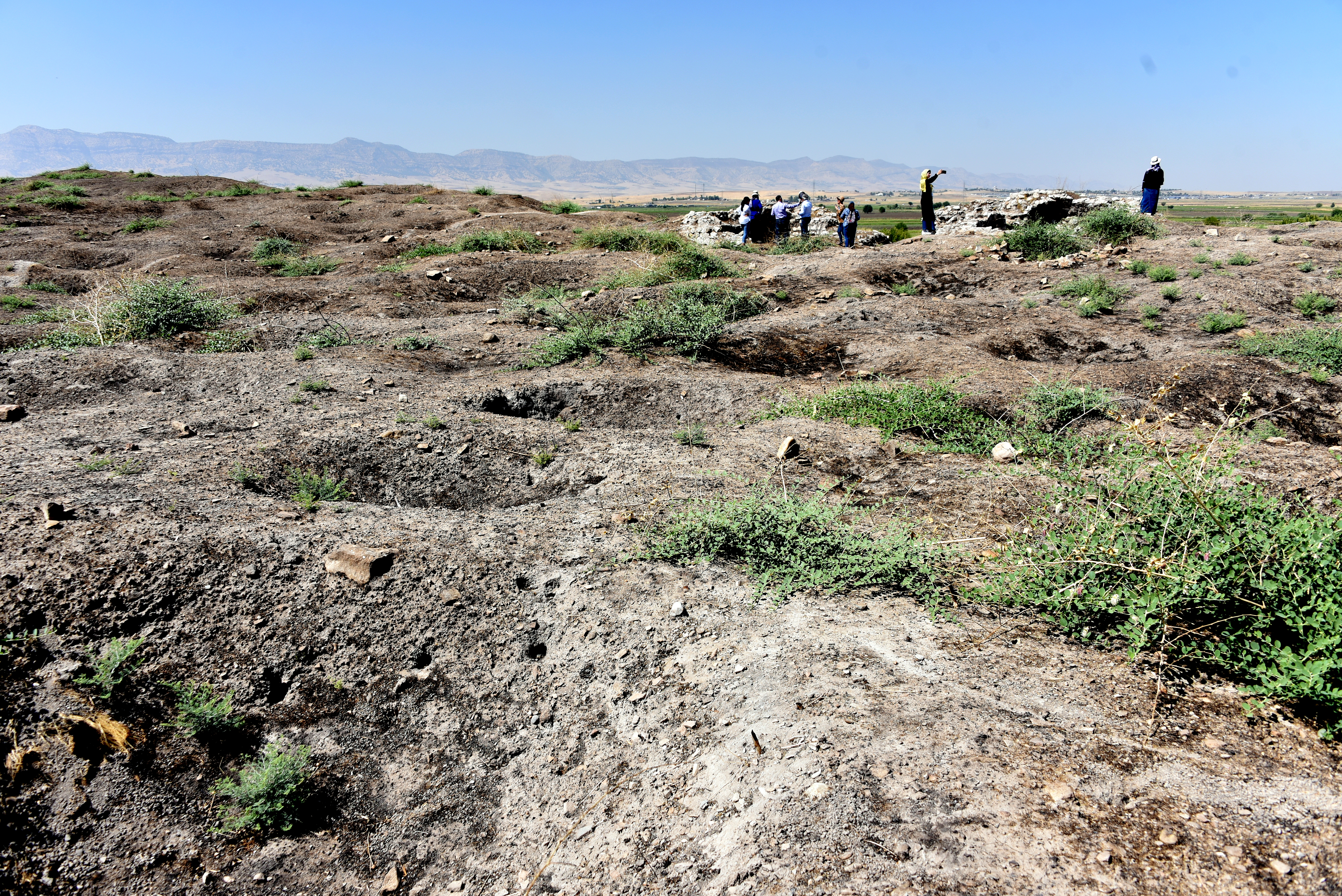 The upper surface of Yasin Tepe ancient mound. Innumerable looters' pits can be seen. Shahrizor Plain, Sulaymaniyah Governorate, Iraqi Kurdistan.